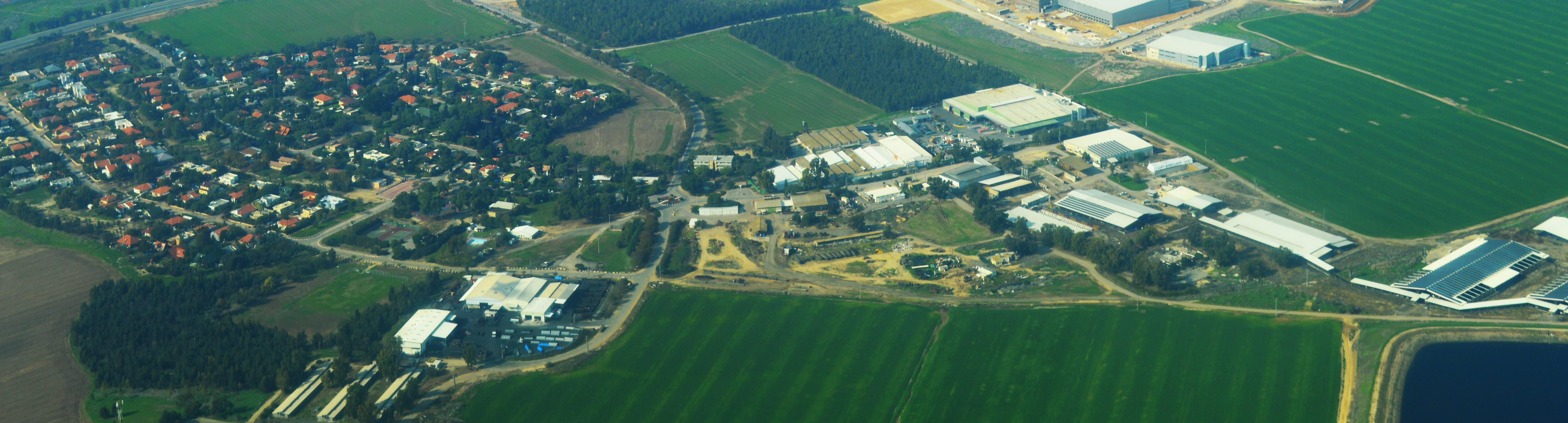 Timorim Aerial View